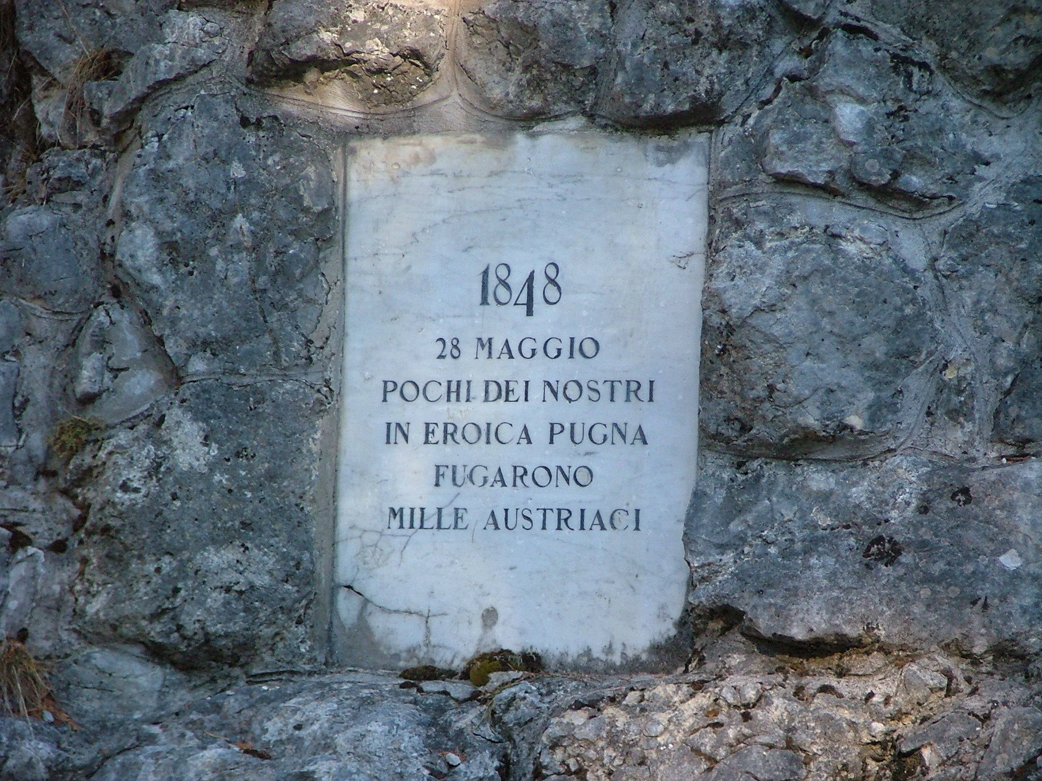 Memorial plaque of 1848's Italian war of independence in Rindemera of Vigo di Cadore, Belluno, Italy